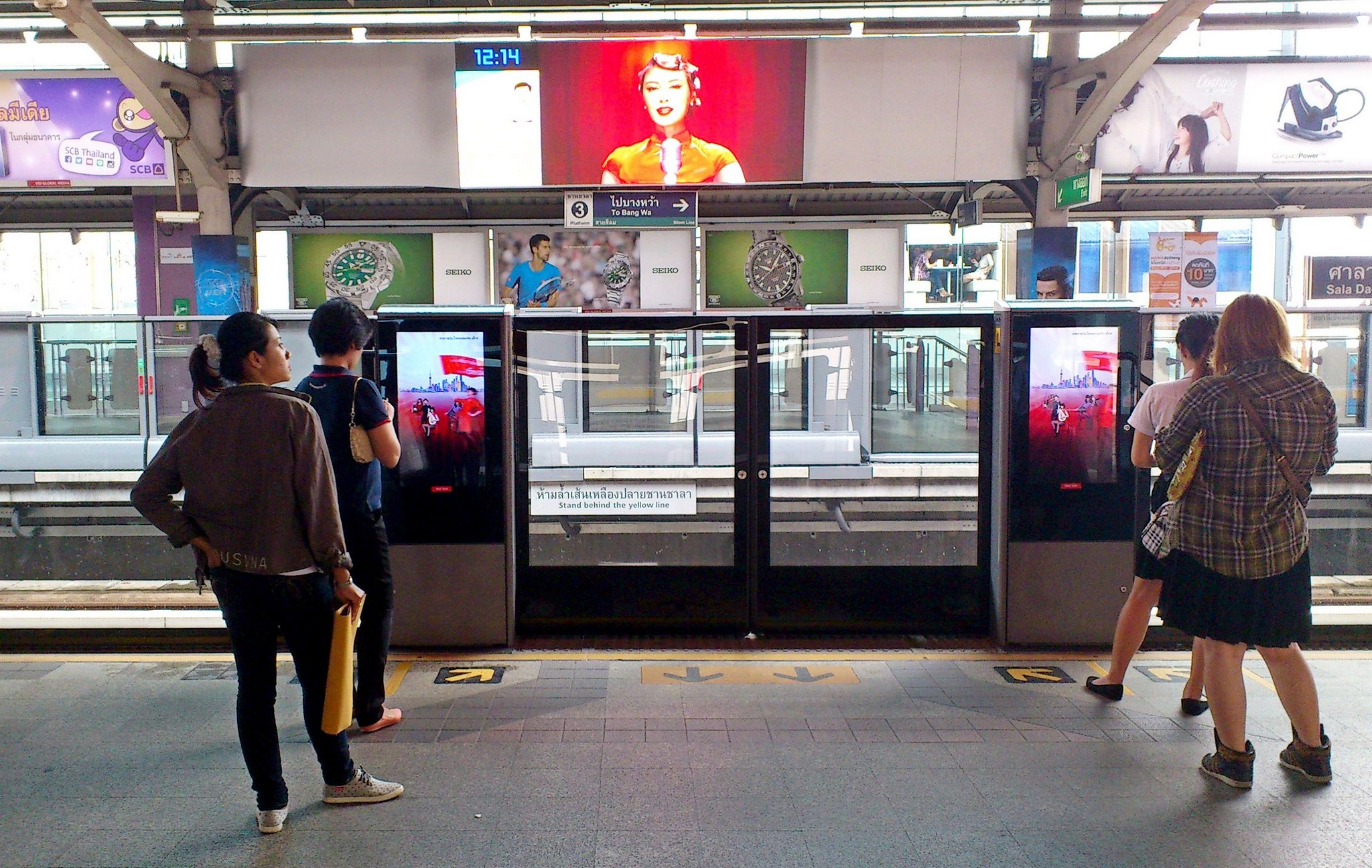 Platform screen doors at Sala Daeng sky train station, Silom, Bangkok, Thailand